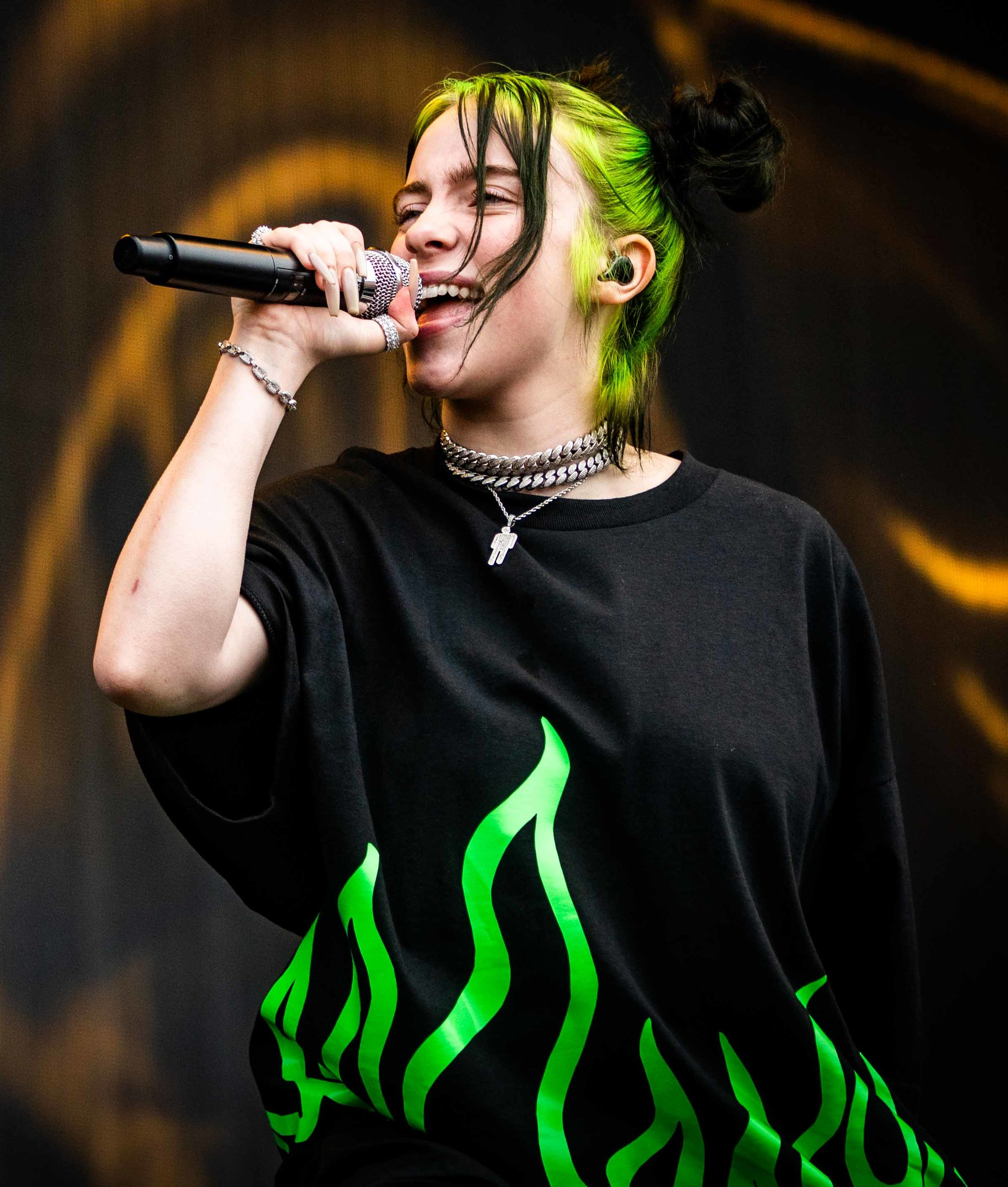 Billie Eilish at 2019 Pukkelpop Music Festival which take place in Kiewit, Hasselt, Belgium. © Lars Crommelinck Photography BillieEilish #Pukkelpop2019